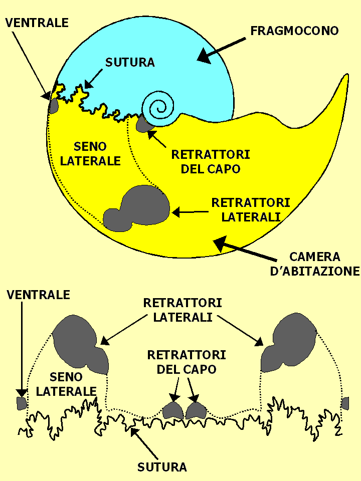 Sketch of the muscular scars present in the body chamber of an ammonoid Aconeceras. After Doguzhaeva & Mutvei (1991), redrawn. Text in Italian.